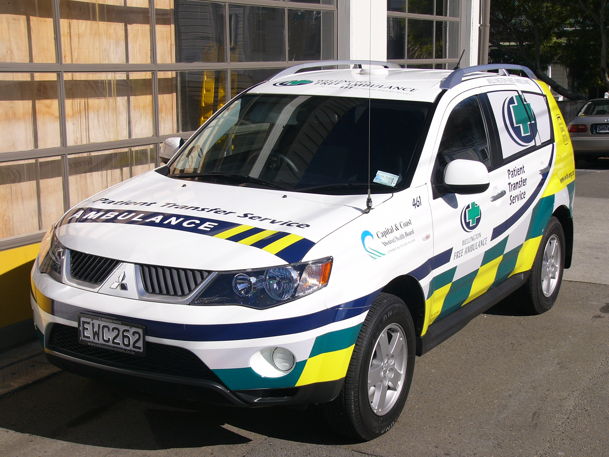 Wellington Free Ambulance Patient Transfer Car 461, Mitsubishi Outlander.